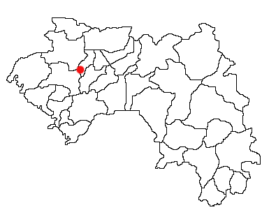 Lélouma, Guinea Location Map; created with the GIMP. Made by User:Acntx.